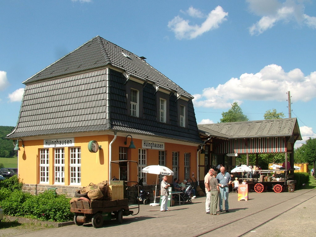 Railway station bulding in Hüinghausen (former line Plettenberg–Herscheid)